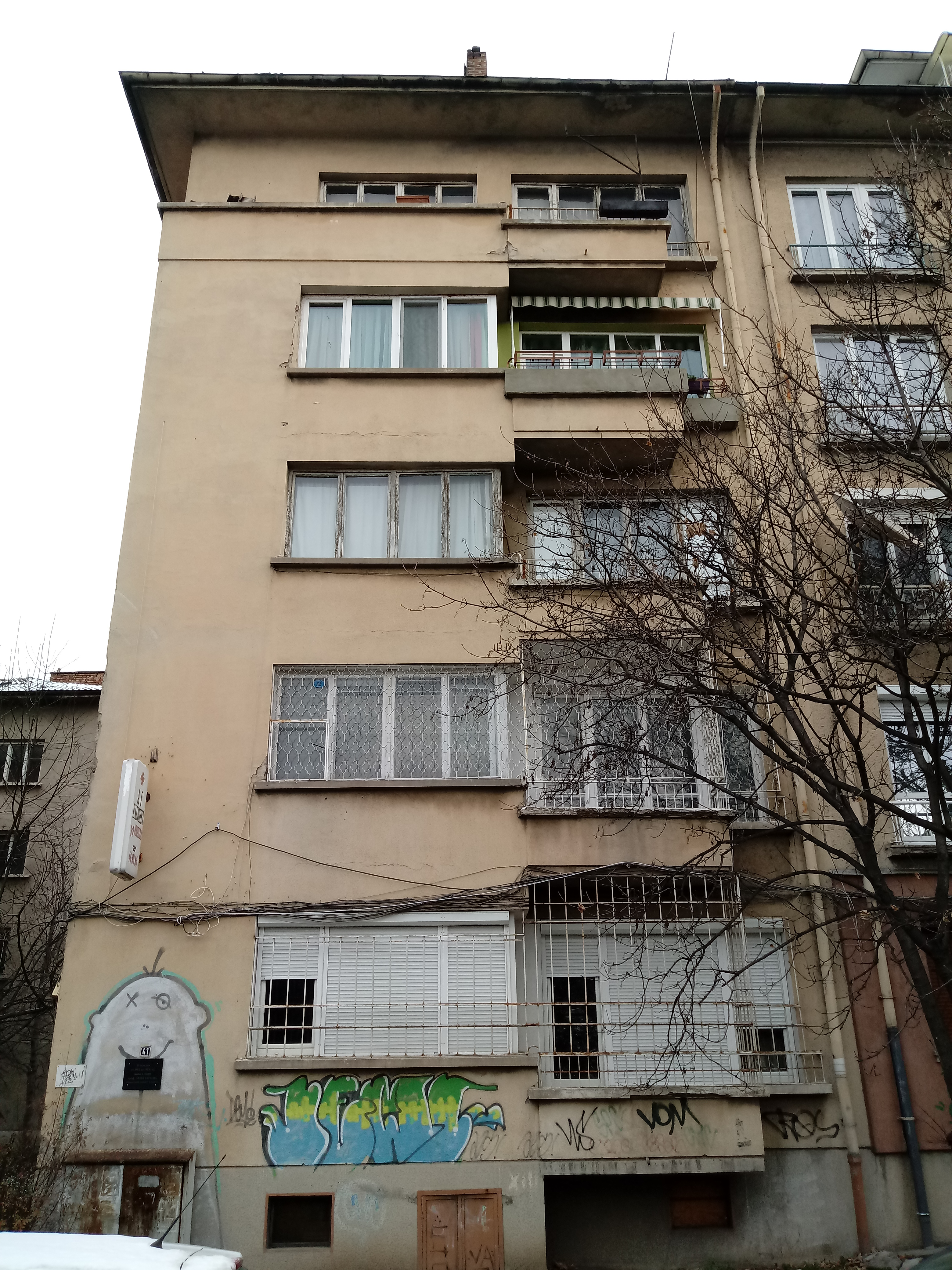 Lyuba Encheva home with memorial plaque, 41 Tsarigradsko Chausee Blvd., Sofia